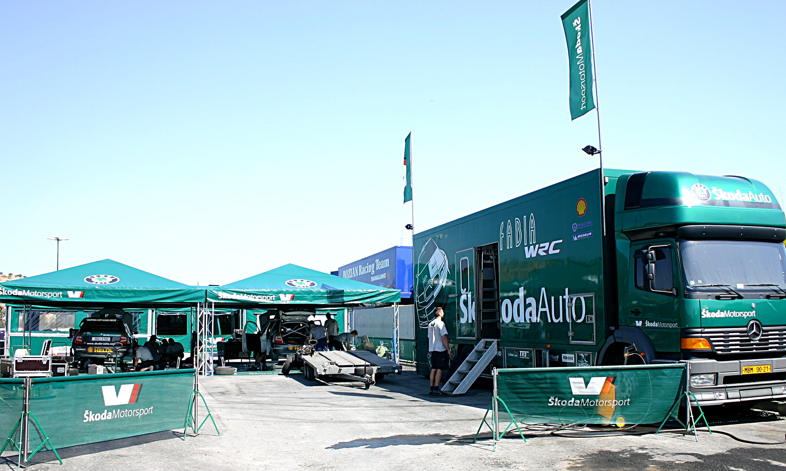 Škoda Motorsport World Rally Team in Limassol, Cyprus, Greek Cypriot Rep. - Cyprus Rally 2005